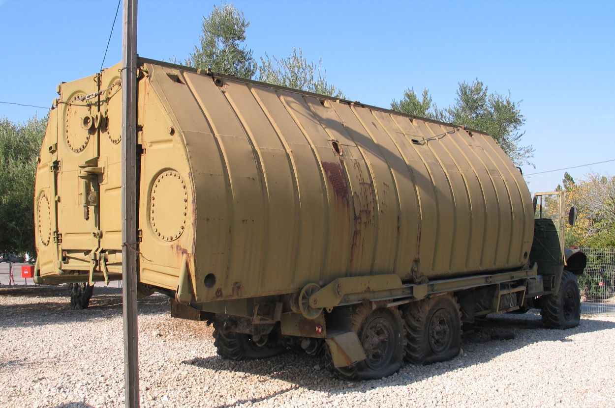 Description: Soviet PMP pontoon bridge on KrAZ truck (apparently KrAZ-214) in Yad la-Shiryon Museum, Israel. 2005. Source: Photo by me, User:Bukvoed